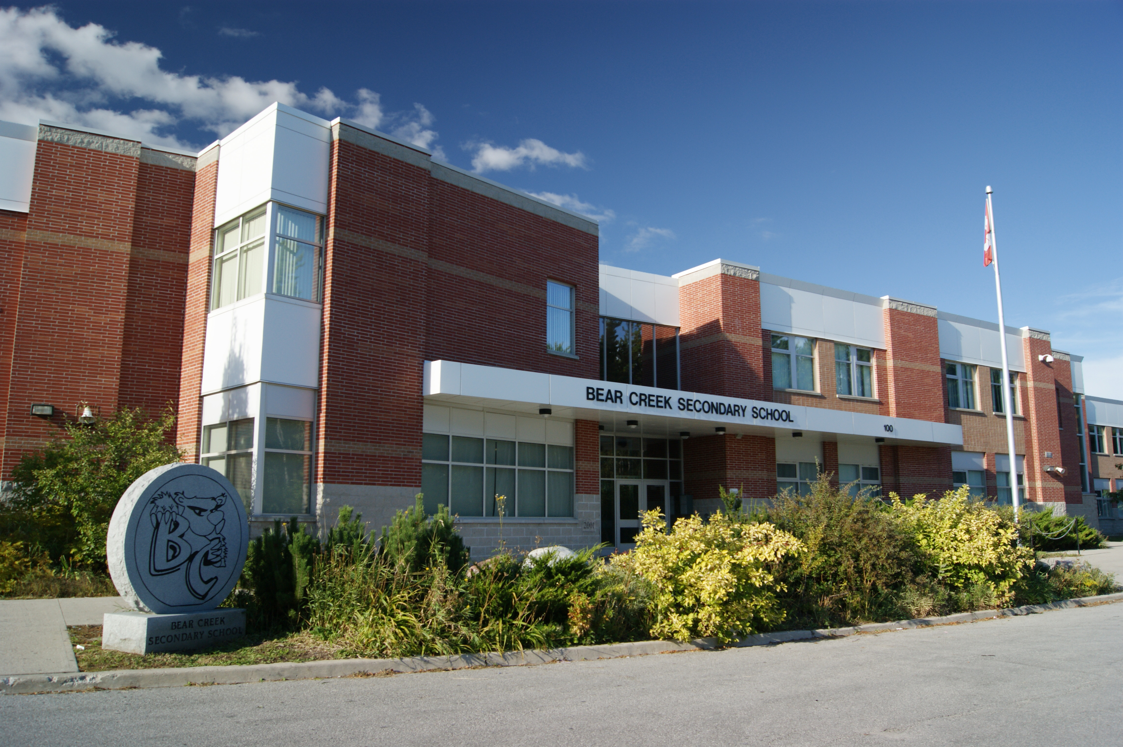 Frontal view of Bear Creek Secondary School in Barrie, Ontario.